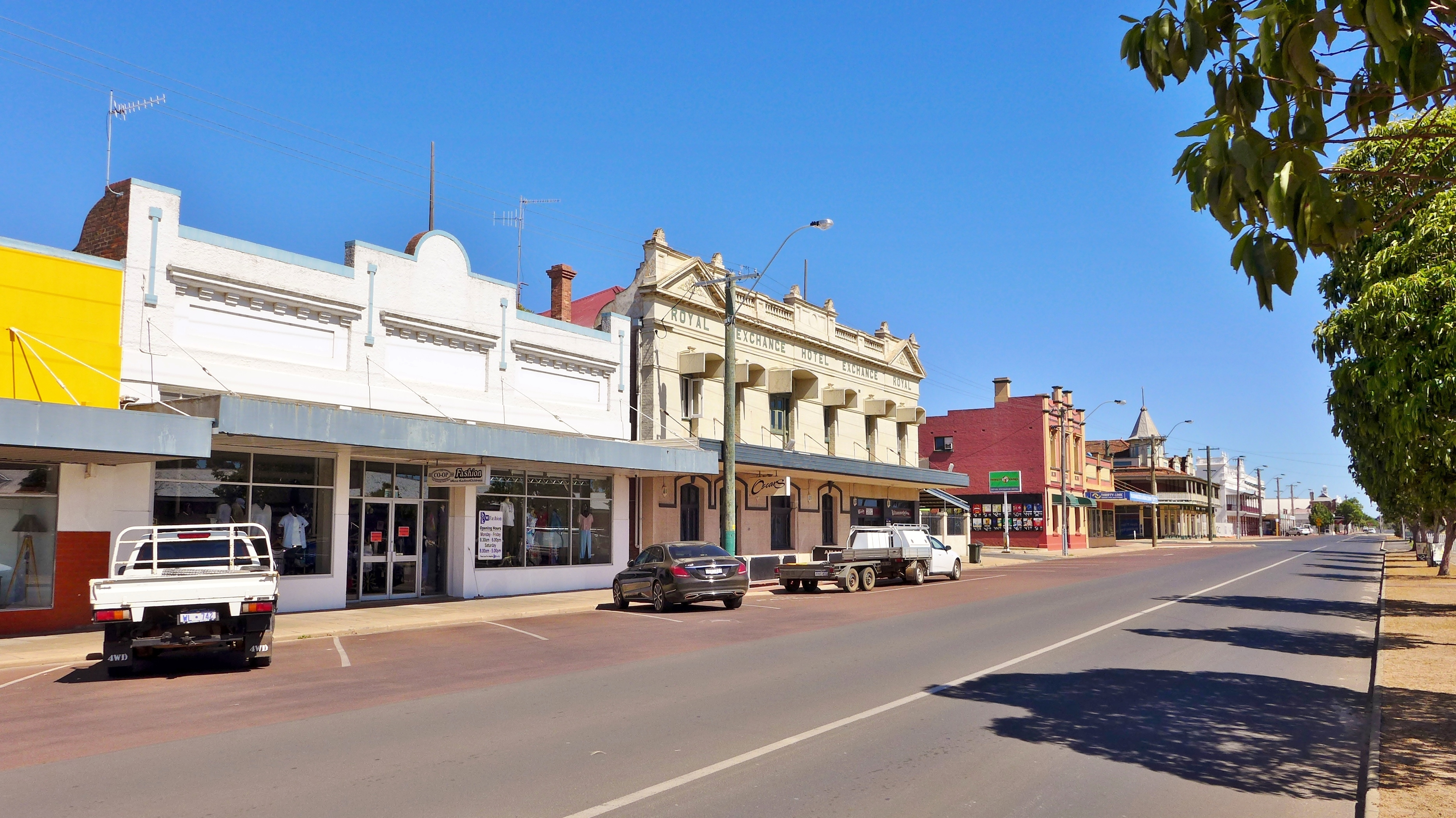 View of Austral Terrace, Katanning, Western Australia